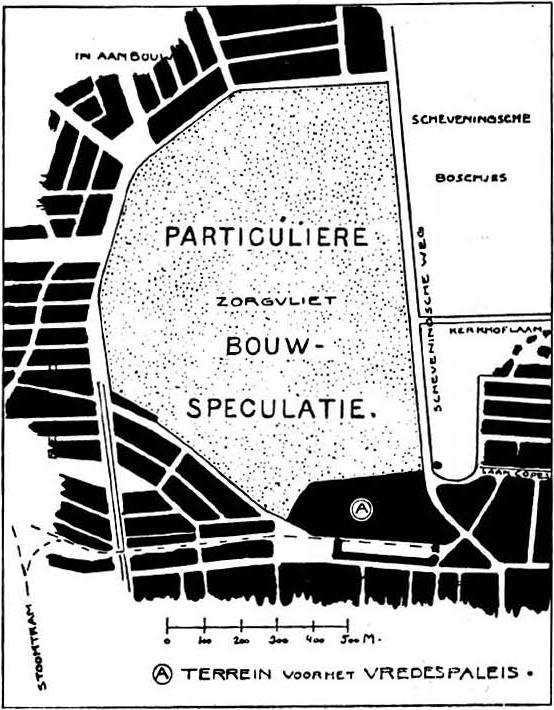 Peace Palace, location regarding the 1905 international architectural competition.